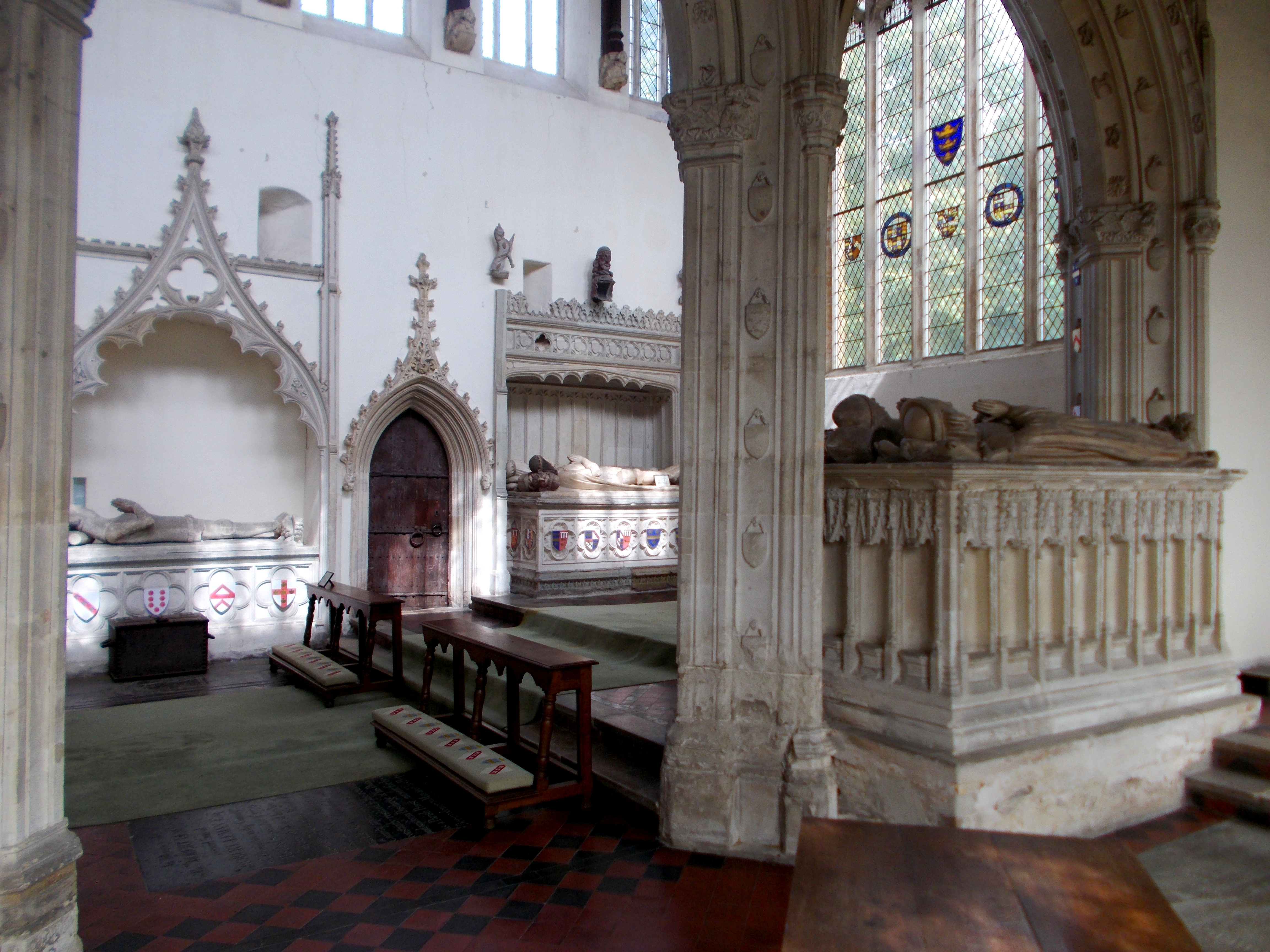 A view from the south-east aisle or presbytery chapel into the chancel of Wingfield parish church, Suffolk, showing (foreground) the altar-tomb with effigies of Michael de la Pole, 2nd Earl of Suffolk, and Katherine Stafford, c.1420; on the north side opposite (centre), the canopied tomb with effigies of John de la Pole, 2nd Duke of Suffolk (died 1492) and his wife Elizabeth Plantagenet; and across (left) the high-canopied tomb and effigy of Sir John de Wyngefeld (died 1361), possibly re-set in its present position.